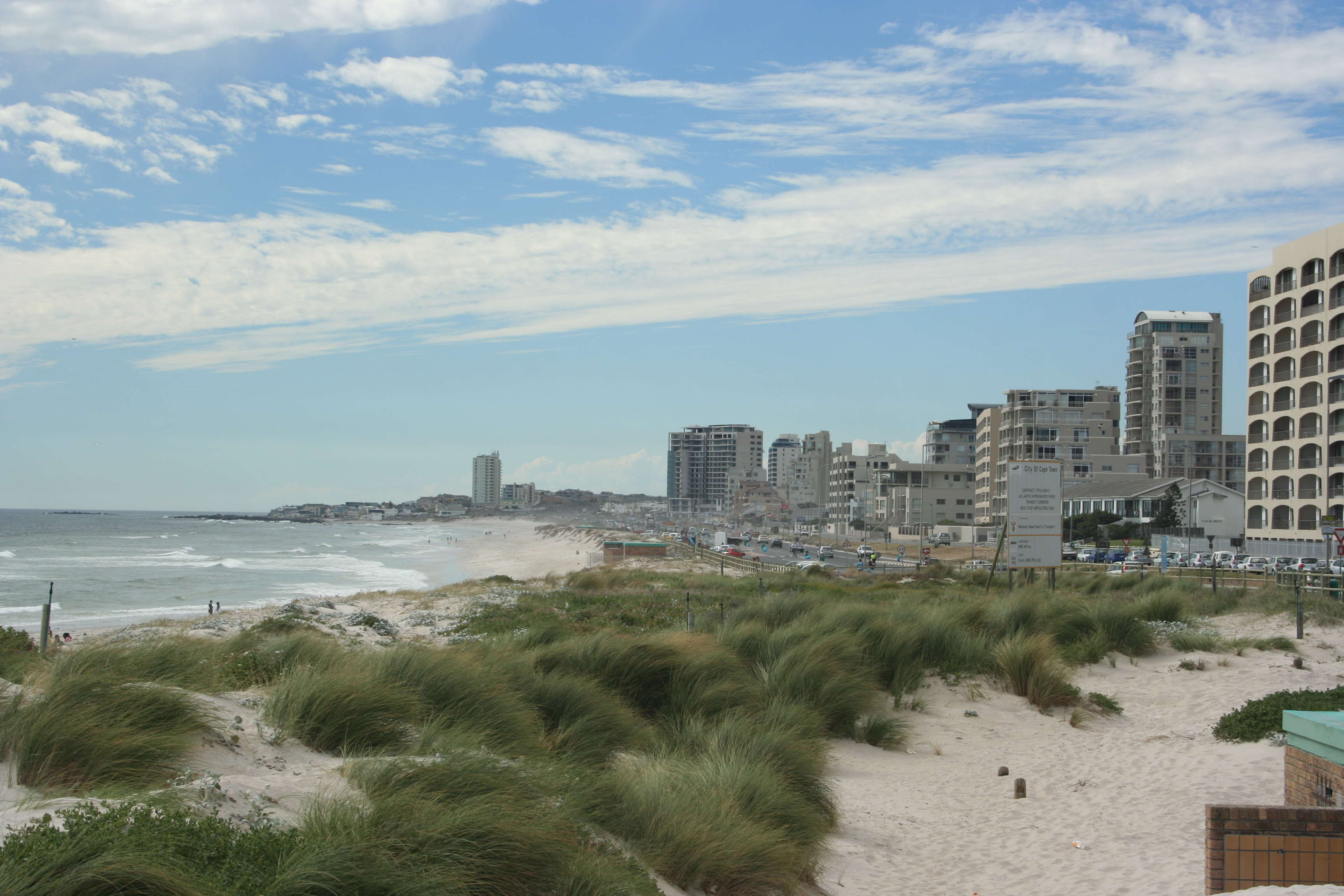 View from Bloubergstrand